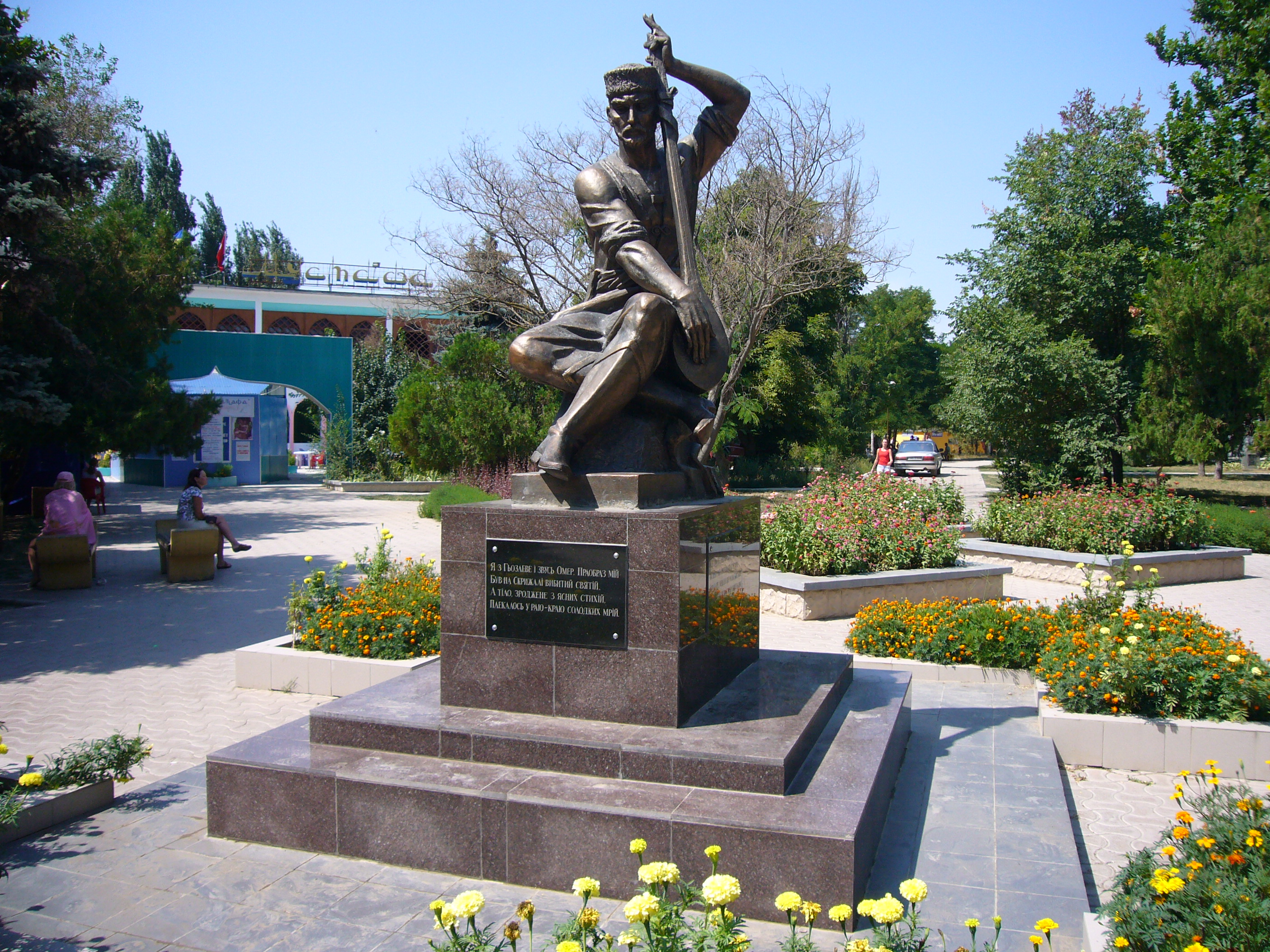 Monument to Poet Omer Gezlevi in Eupatoria, Crimea, Ukraine /